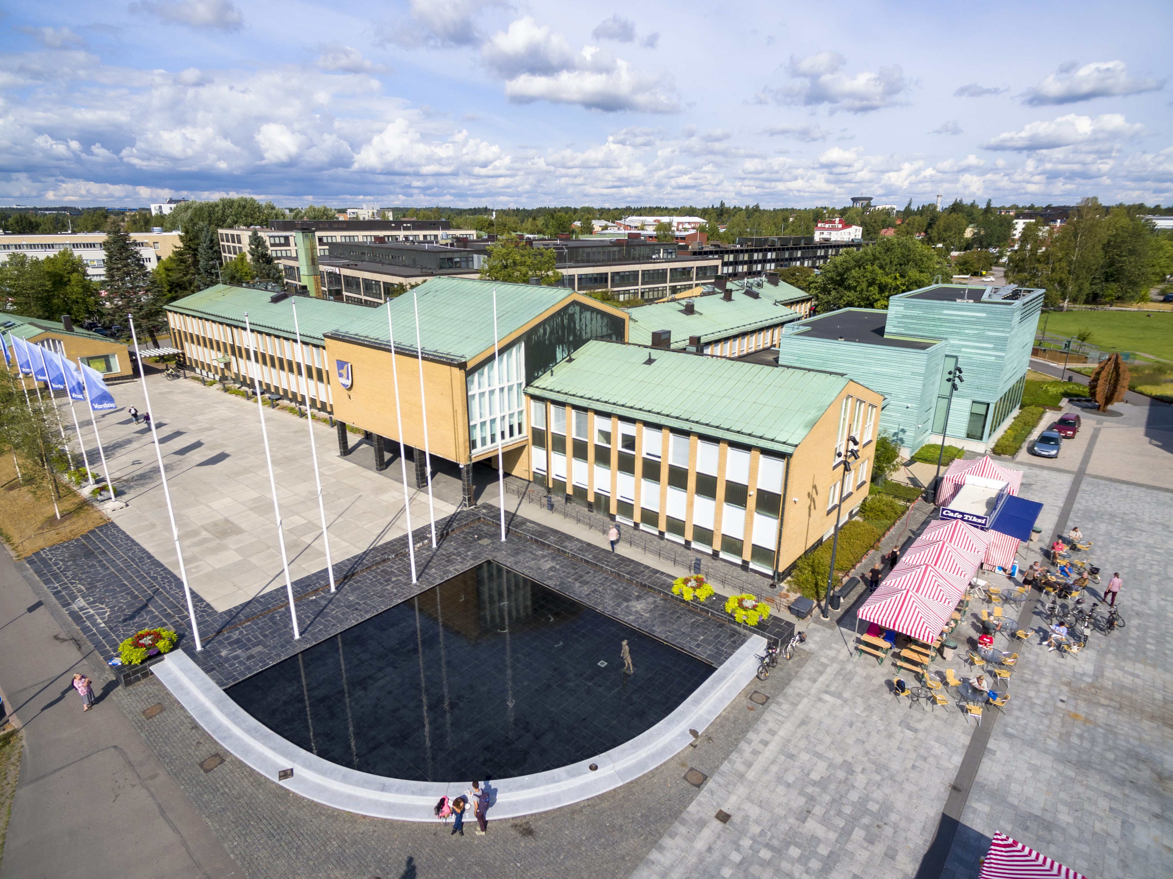 Vantaa City Hall in Tikkurila on 16 August 2018.